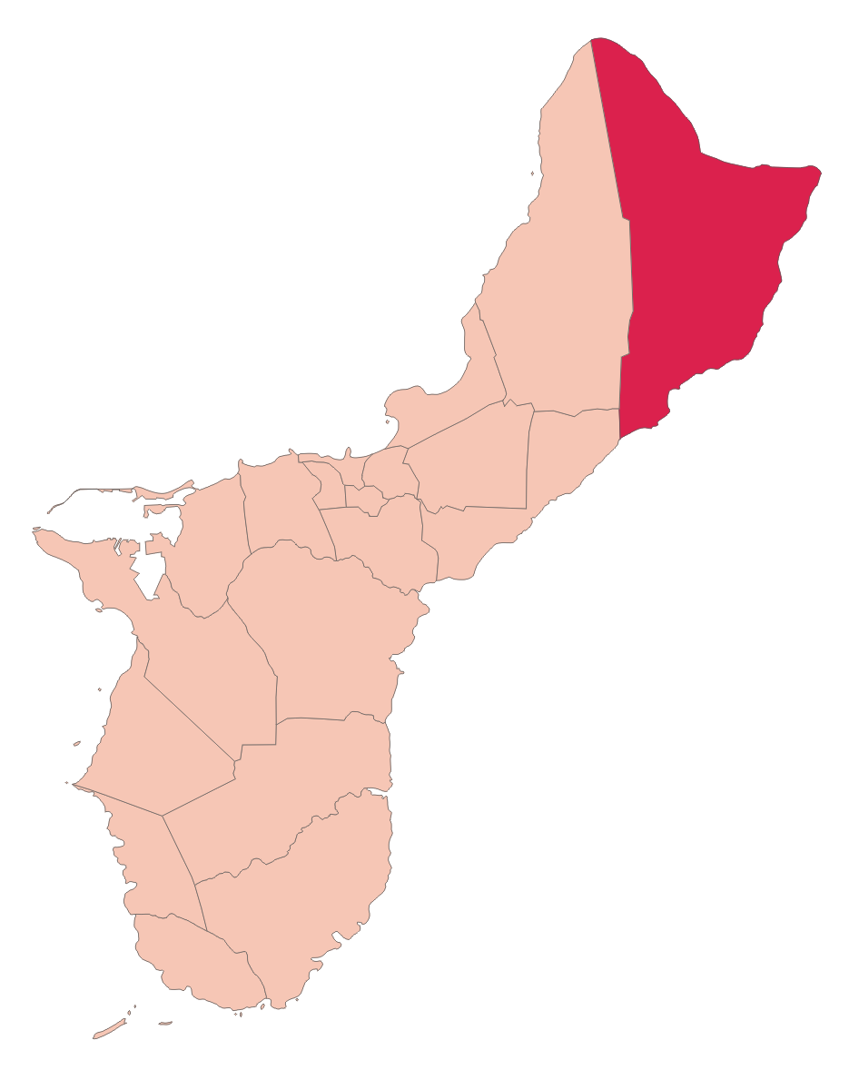 Municipalities of Guam: YigoChamoru: Yigu (Guåhån).